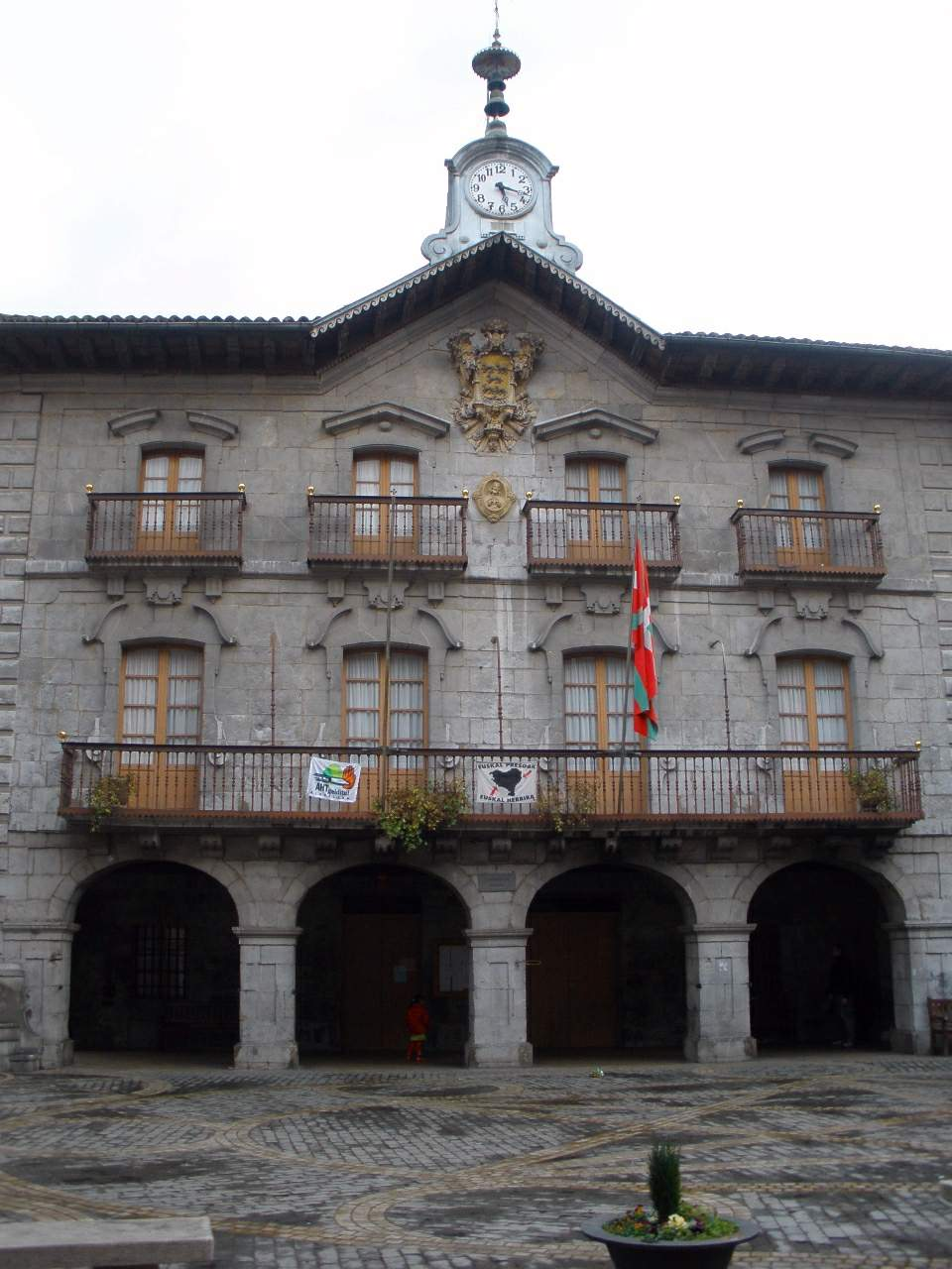 Ayuntamiento de Alegia (Guipúzcoa)